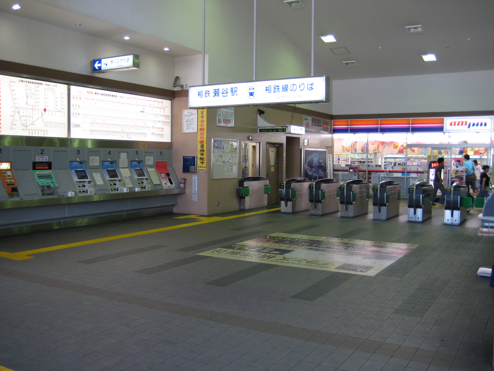 Seya Station concourse, on the Sotetsu Main Line, Seya-ku, Yokohama, Kanagawa, Japan.